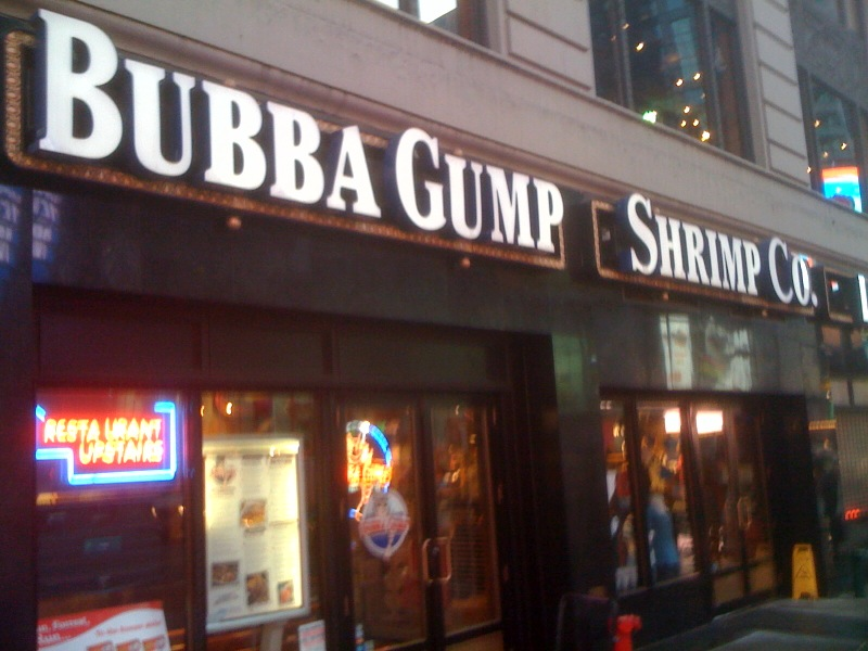 Bubba Gump Shrimp Company in New York City, New York, United States of America.